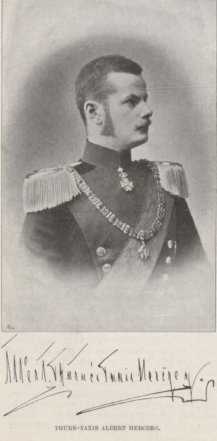 Albert, 8th Prince of Thurn and Taxis